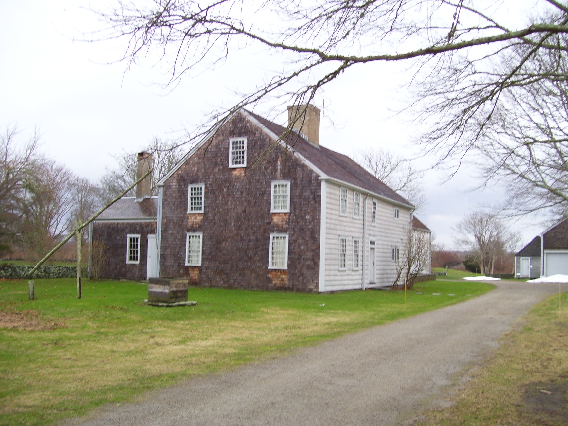 My 2009 photo of Wilbor House in Little Compton, Rhode Island, USA.